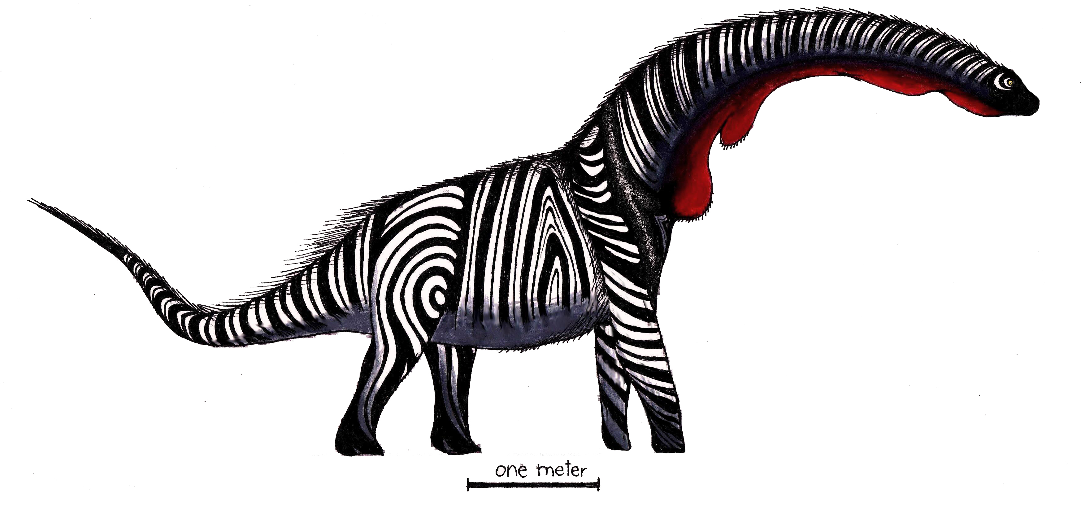 Life restoration of Overosaurus.